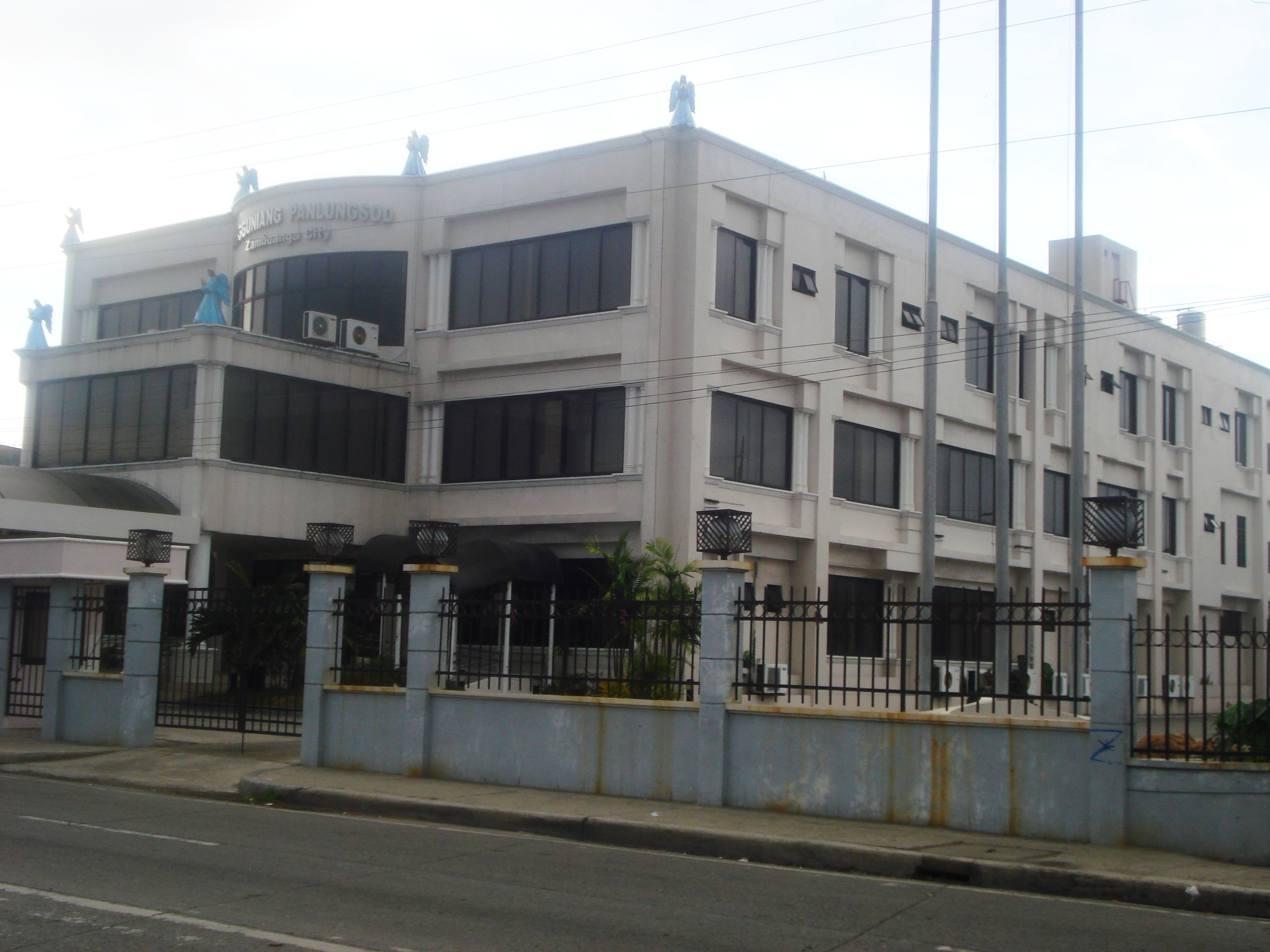 Consejo de la Ciudad de Zamboanga (City Council)